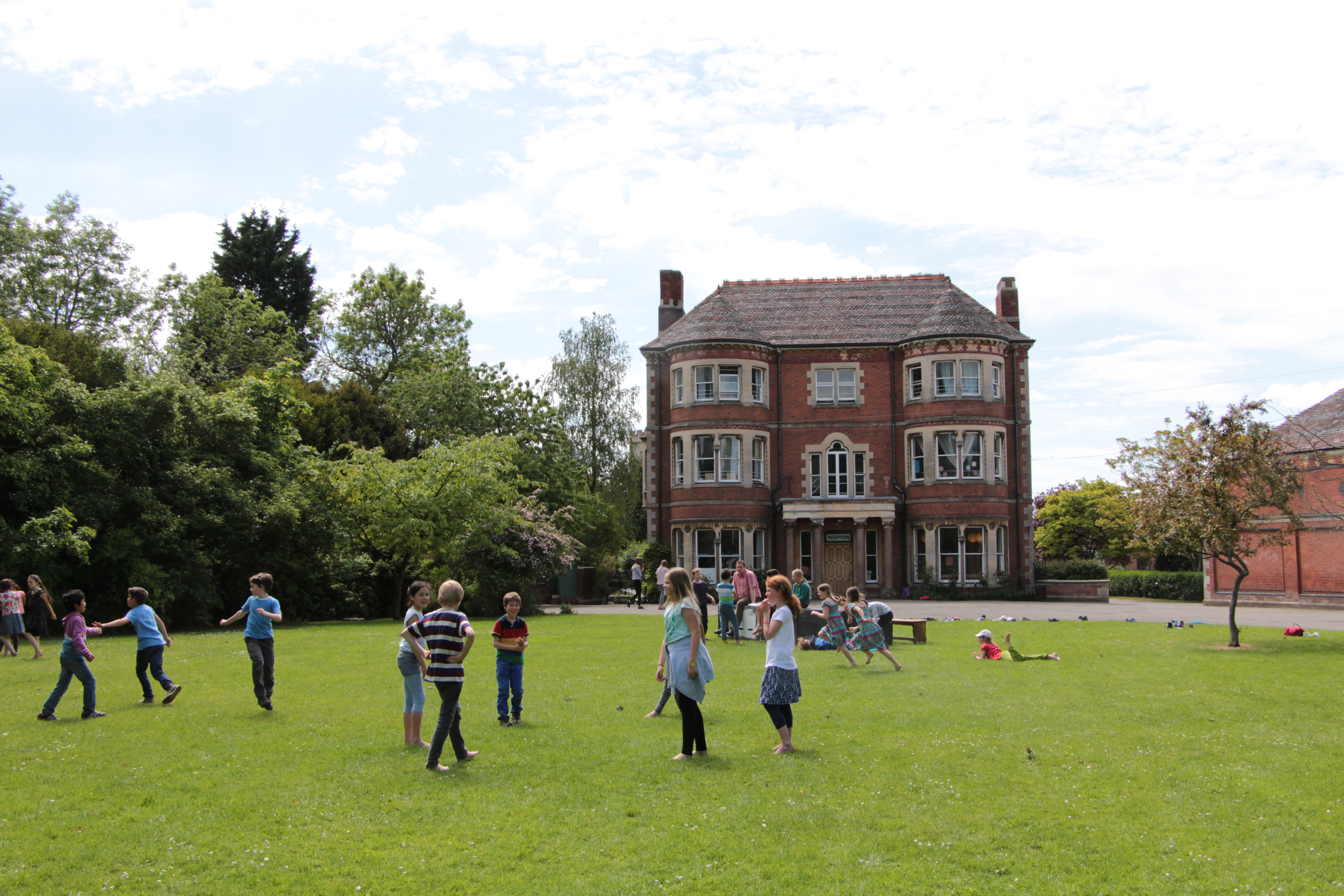 Main Building - Whaddon Manor